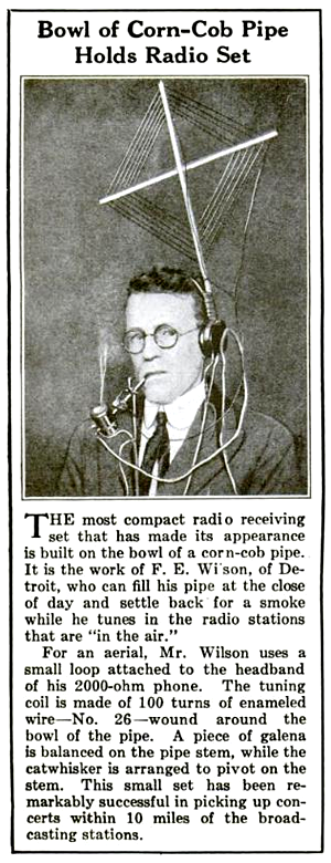 A small novelty crystal radio built into a corn-cob pipe.